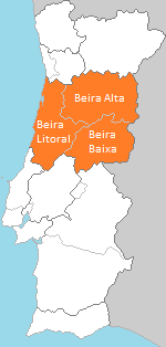 Region of Beira (Portugal)